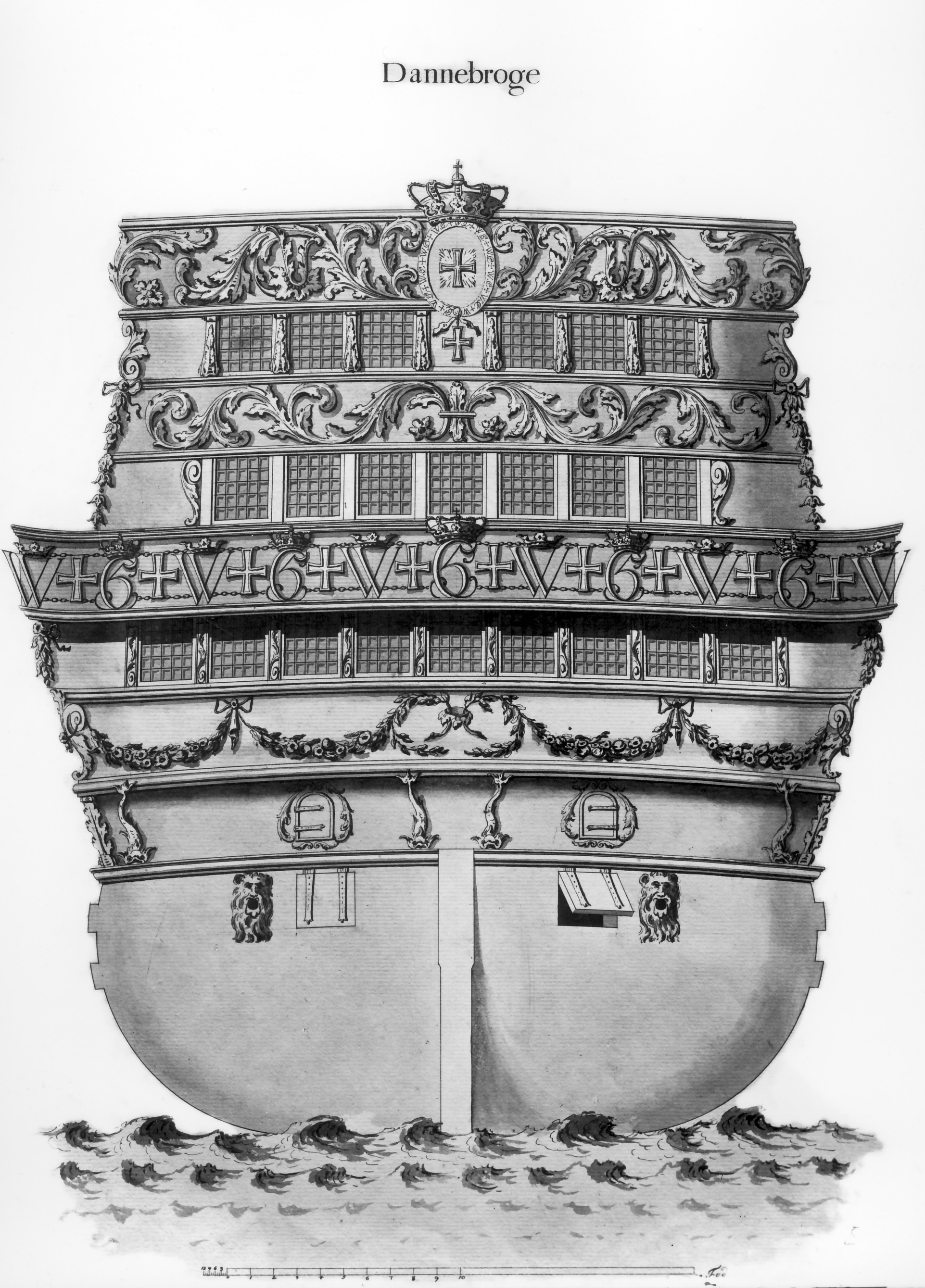 Backornament of Danish Ship-of-the-Line Dannebroge